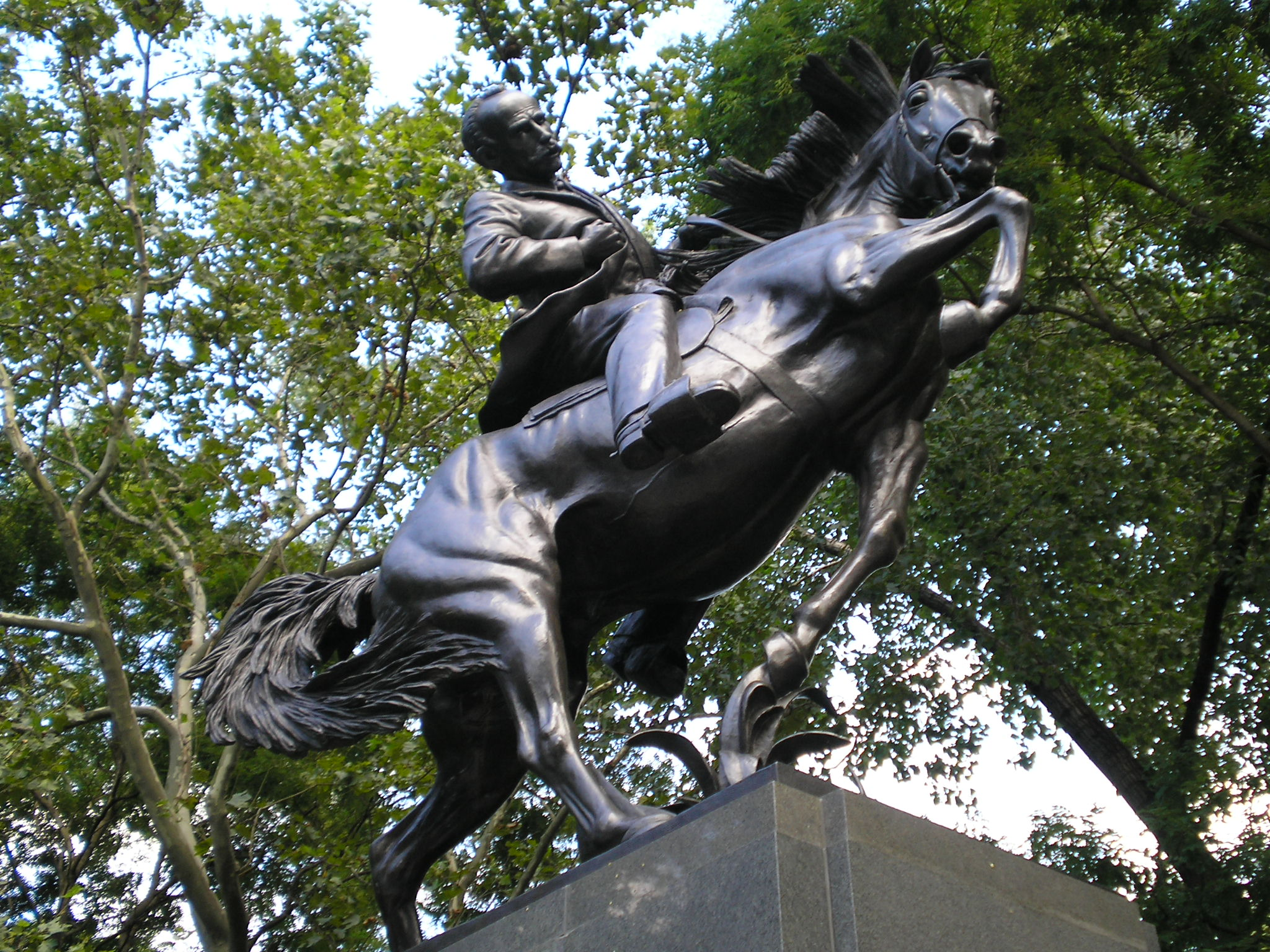 Statue of Jose Marti at the Sixth Avenue entrance of Central Park, New York City by Anna Hyatt Huntington